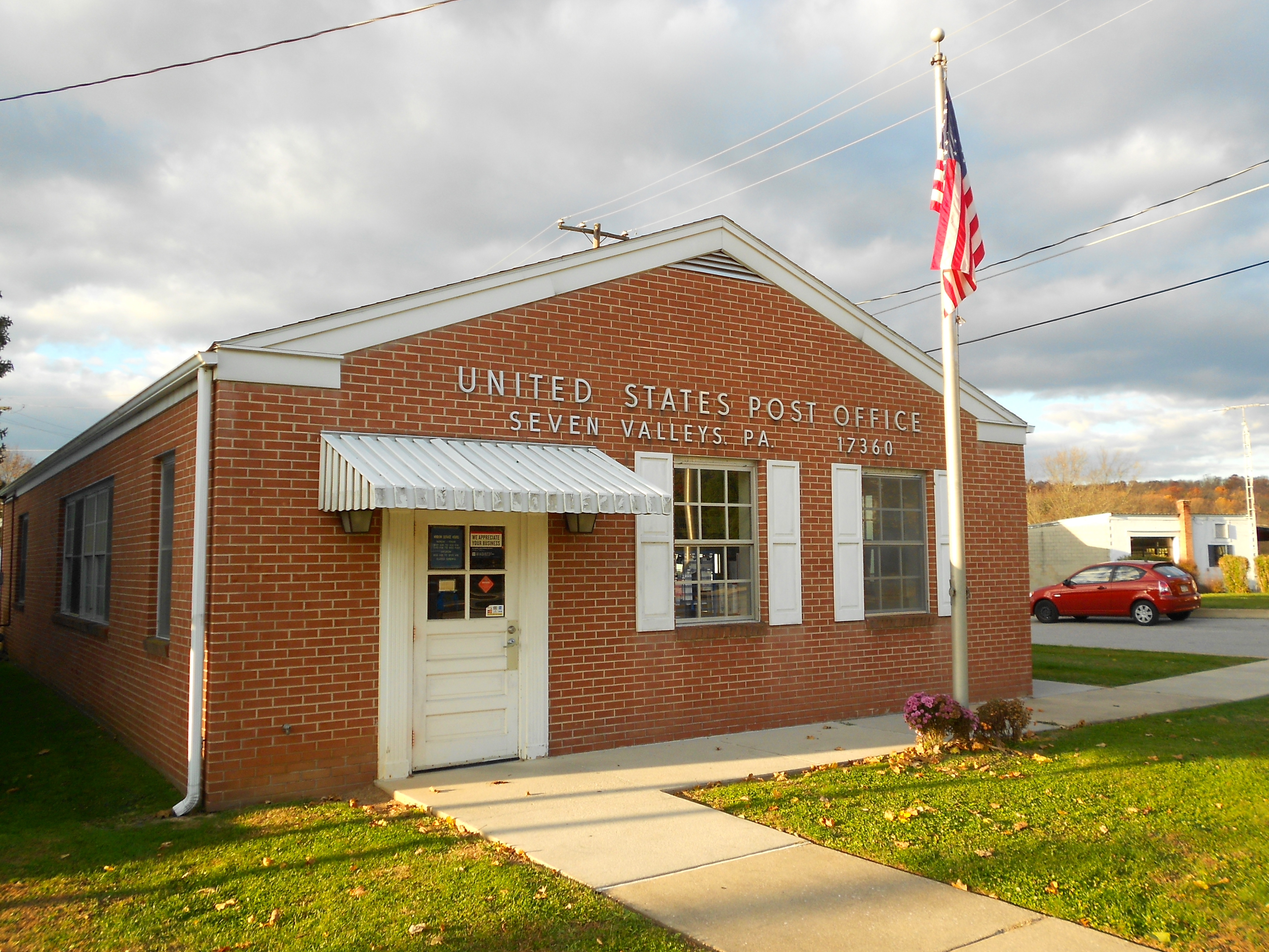 US Post office in Seven Valleys, York County, Pennsylvania zip code 17360